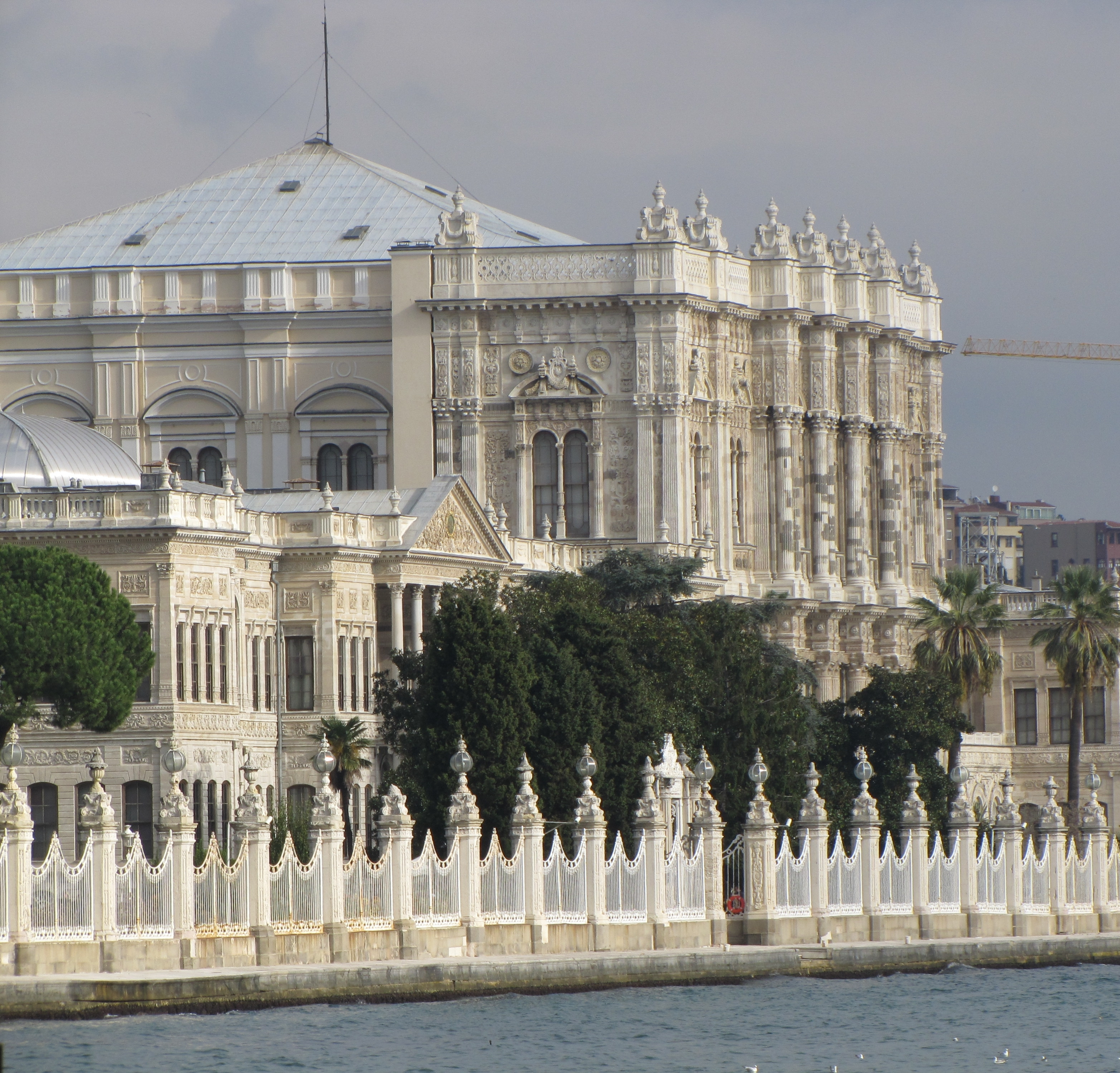 Dolmabahce Palace partial view